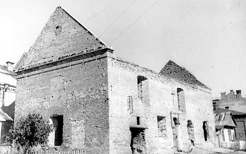 Former Armenian church